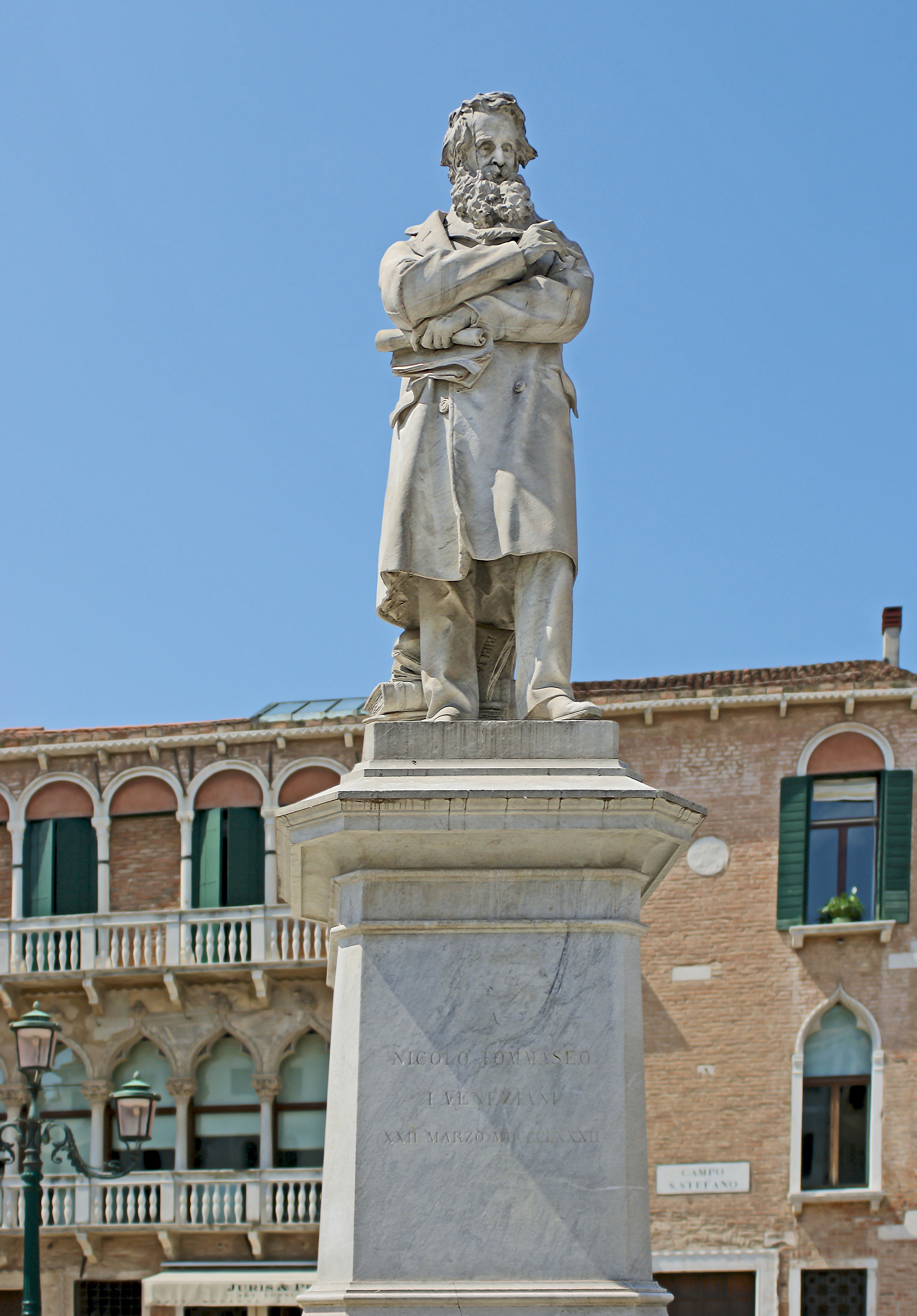 Statue of Niccolò Tommaseo on Campo Santo Stefano in Venice. Sculpted by Francesco Barzaghi (1839-1892), was inaugurated on March 22 1882.